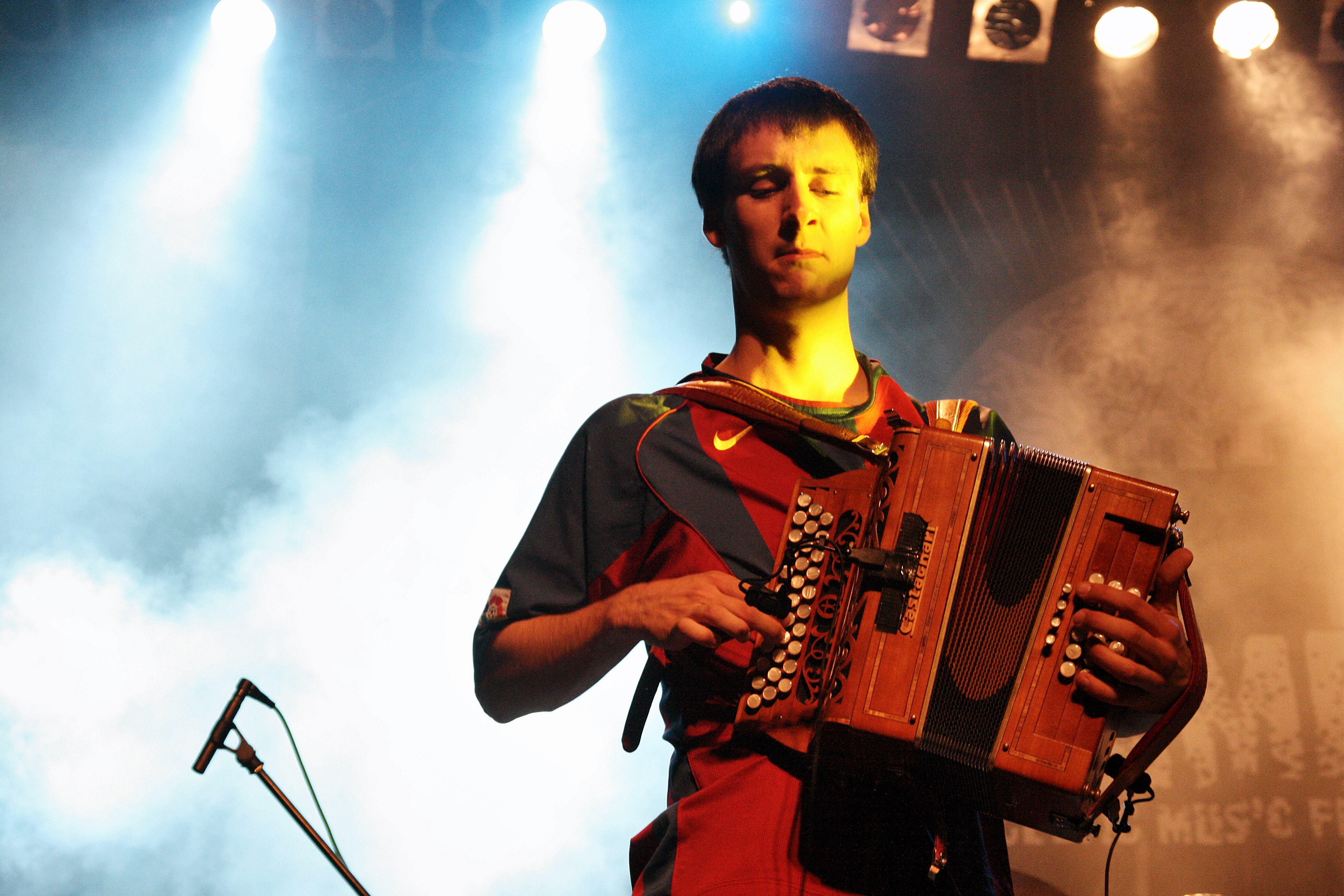 Tangi Le Gall-Carré from Startijenn band during concert in Będzin.